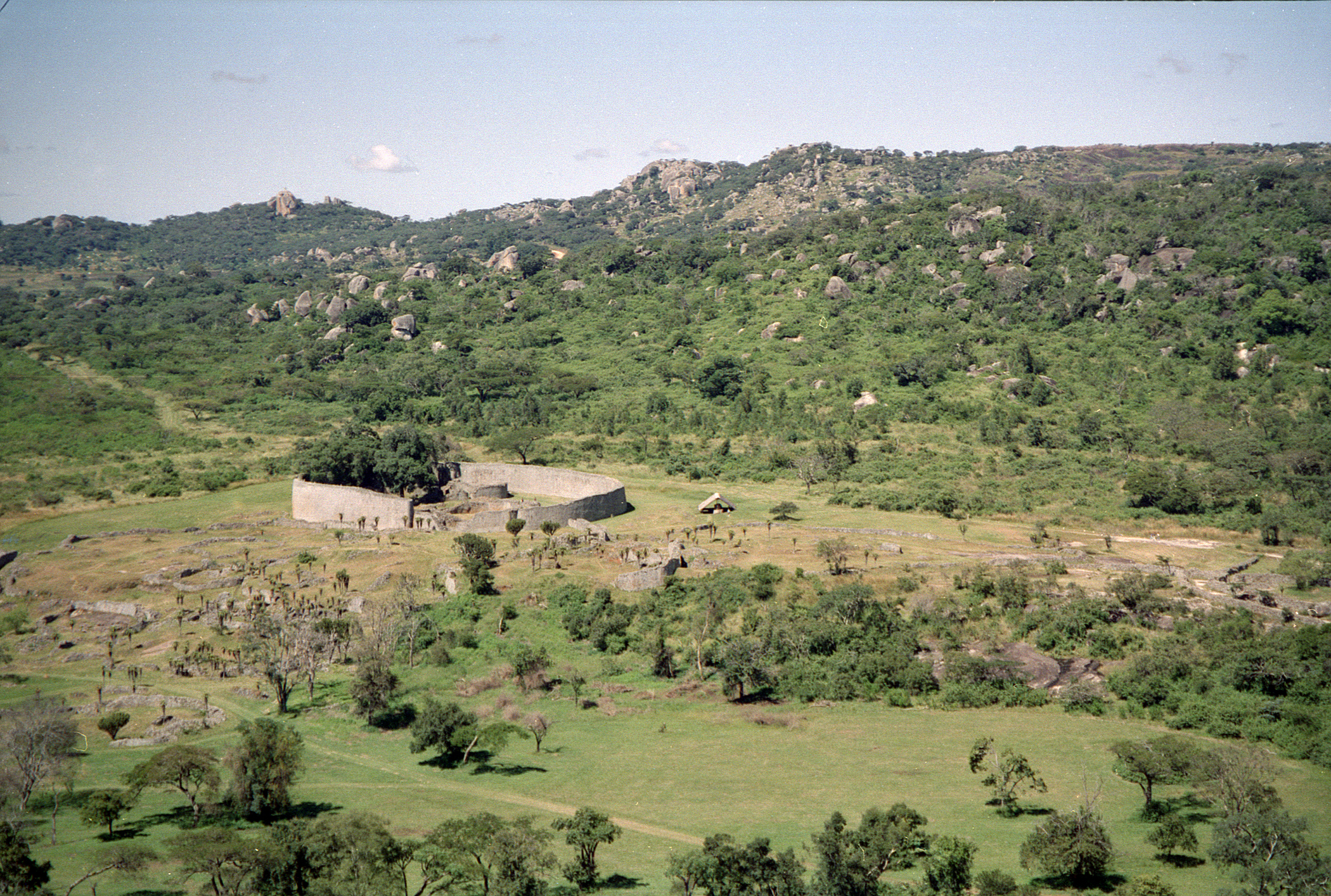 The Great Enclosure, which is part of the Great Zimbabwe ruins.